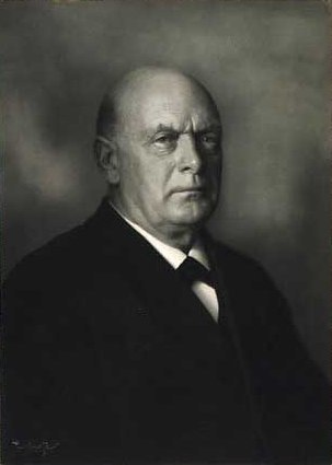 Danish politician, director of the National Bank, MP Jens Peter Dalsgaard (1853-1923)